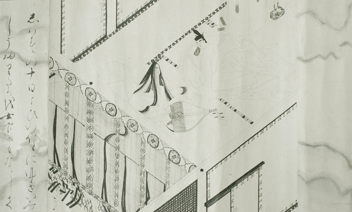 A part of one section of the Illustrated handscroll of The Pillow Book, ink on paper, 13th century, Japan Published ACE1921